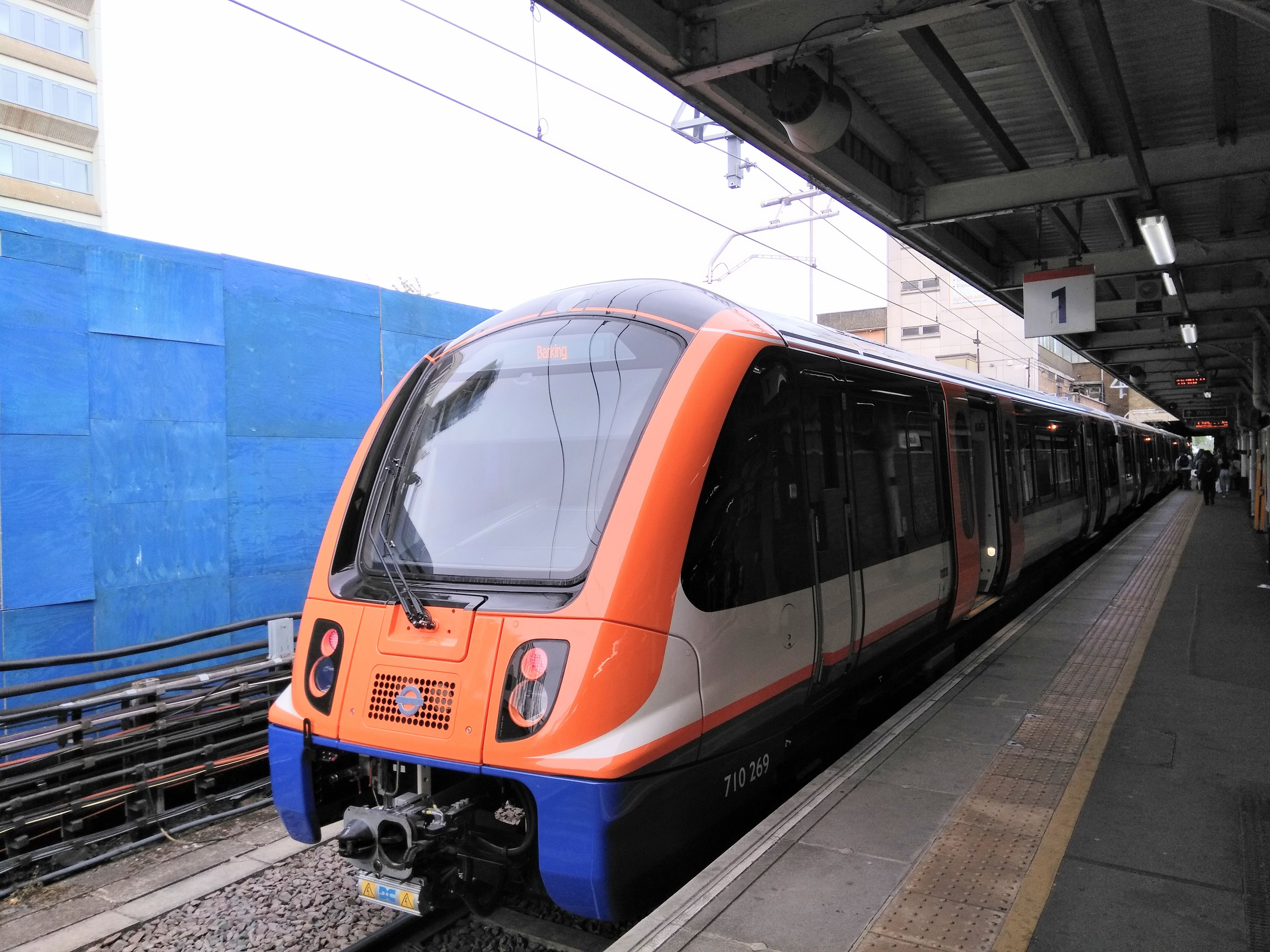 London Overground Class 710 unit 710269 stands at Barking station